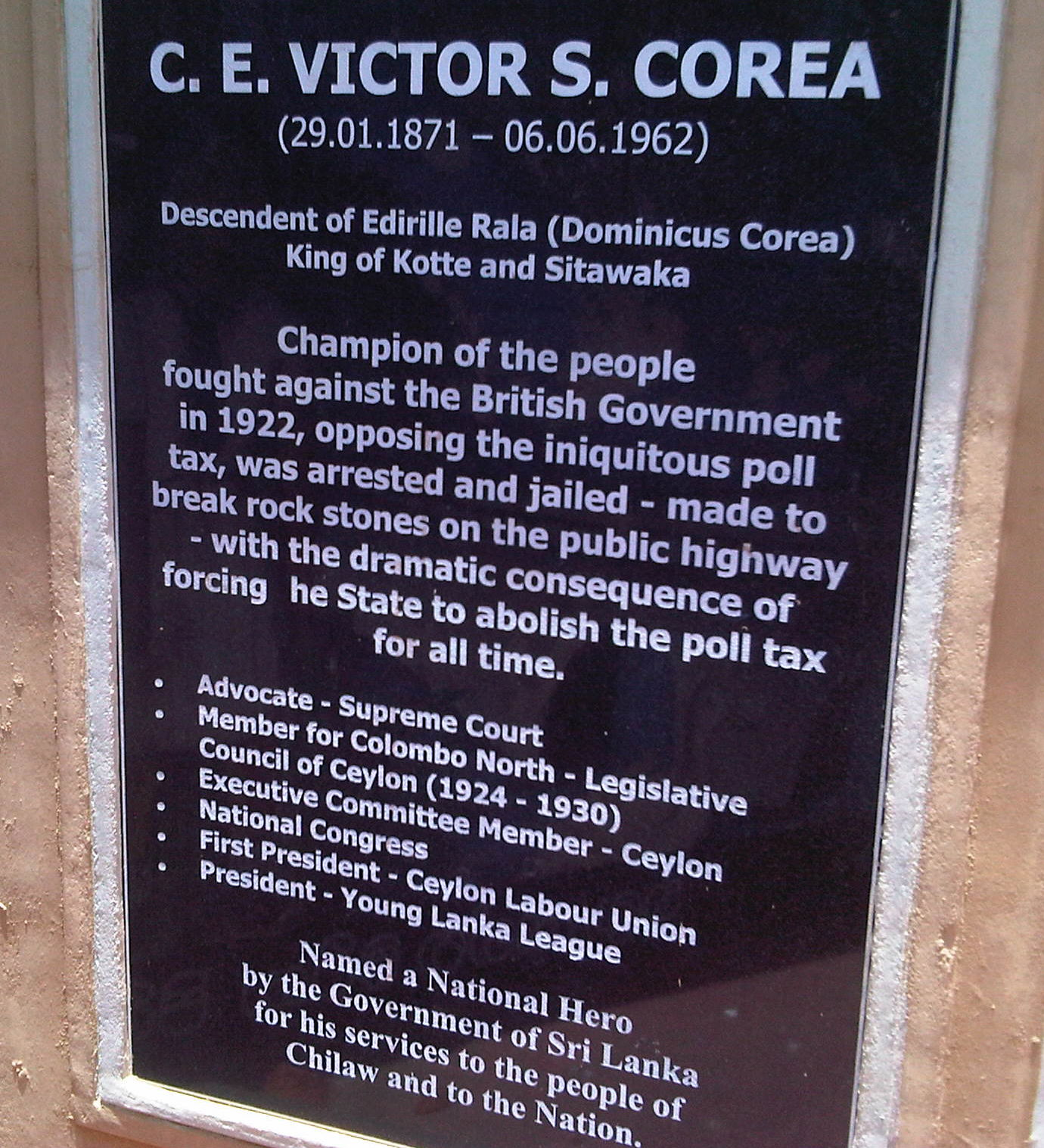 The plaque in the west coast town of Chilaw in Sri Lanka detailing the exploits of Victor Corea, a national hero.